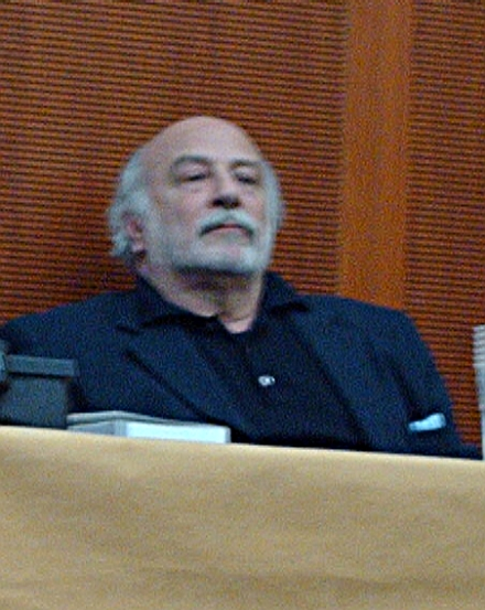 Actor Lucio Allocca attending a meeting at a book fair (Galassia Gutenberg, Naples)